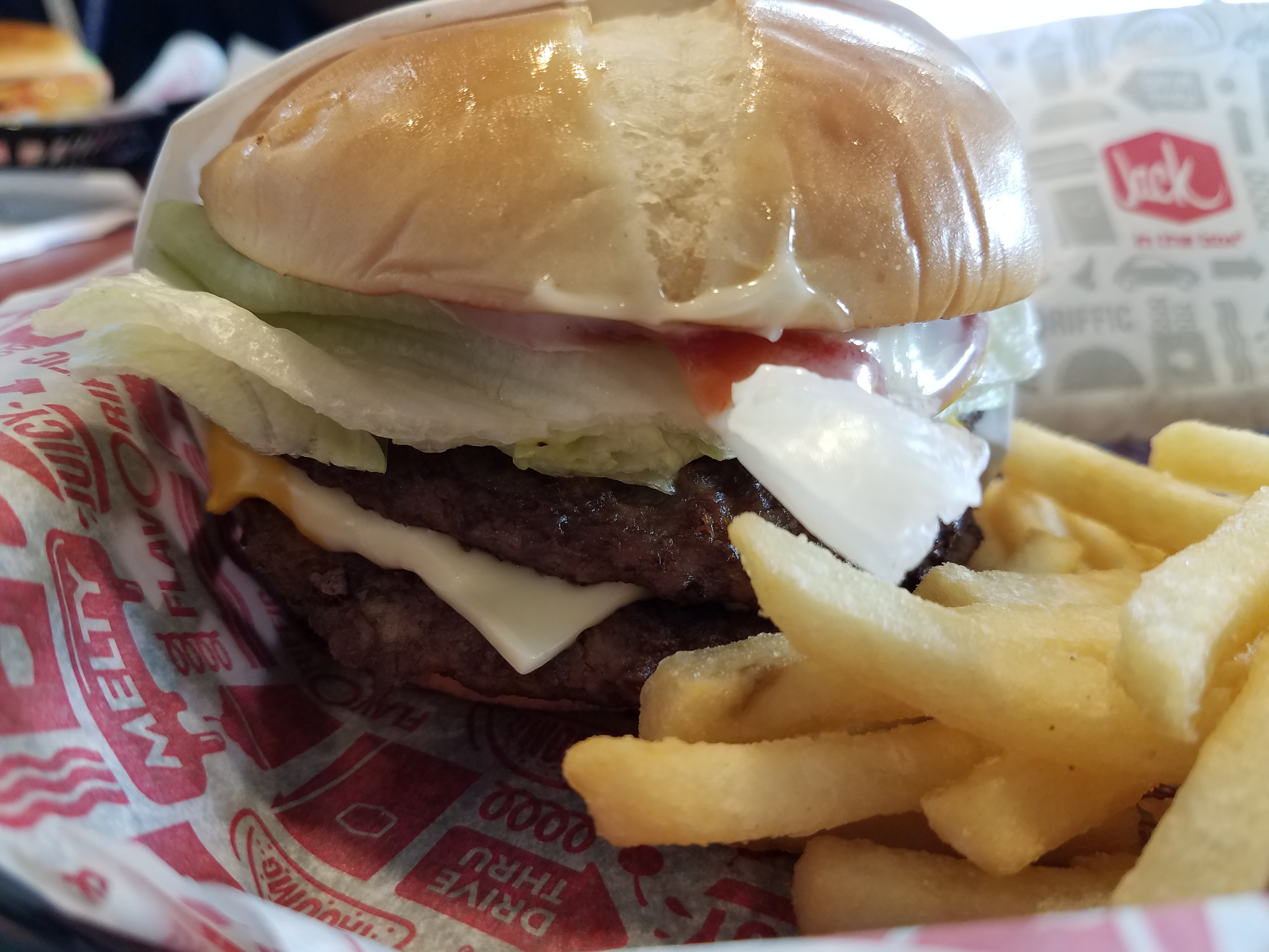 A bacon ultimate cheeseburger with lettuce and onions made in La Jolla